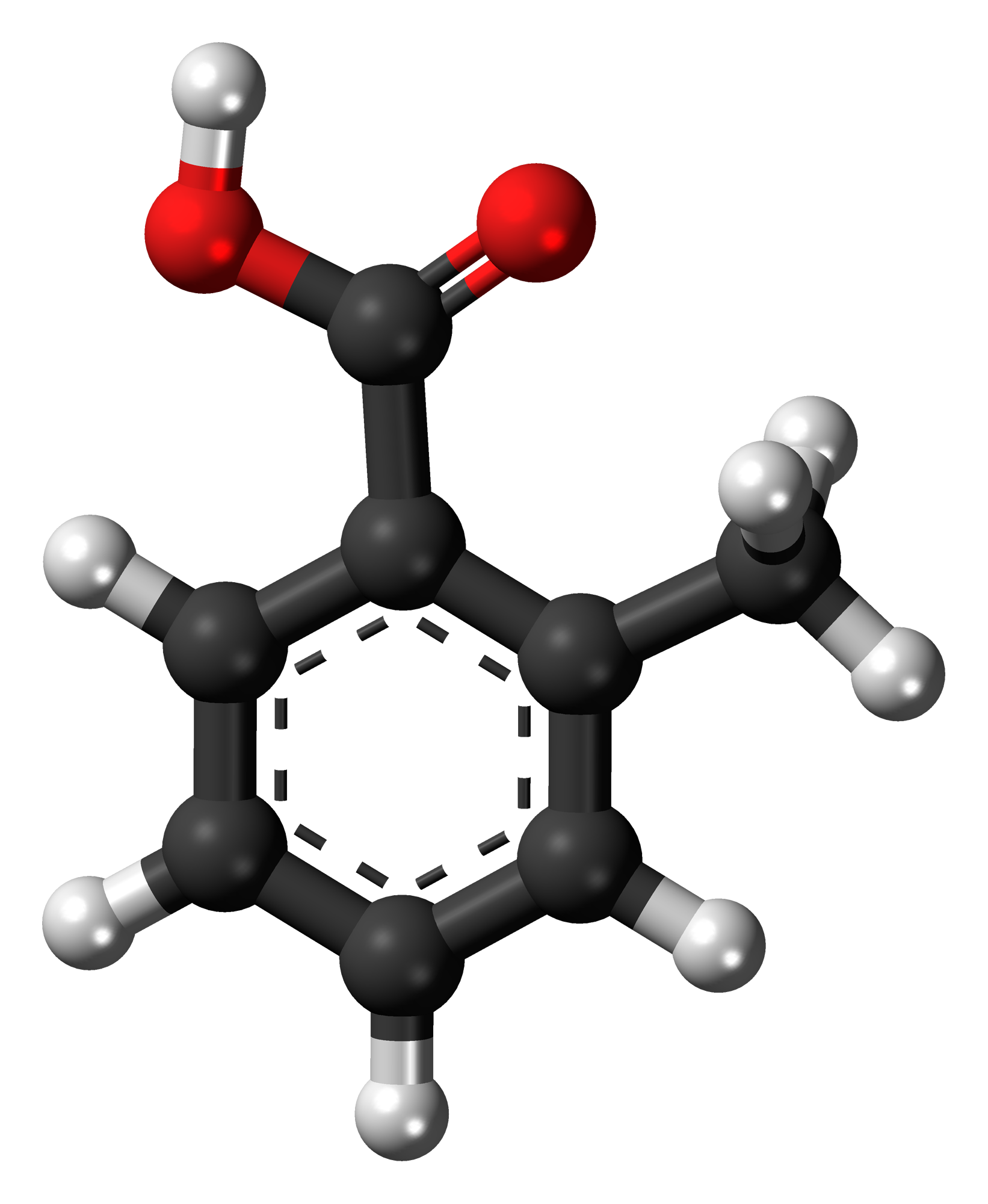 Ball-and-stick model of the o-toluic acid molecule, also known as 2-methylbenzoic acid, one of the three isomers of toluic acid. Colour code: Carbon, C: black Hydrogen, H: white Oxygen, O: red